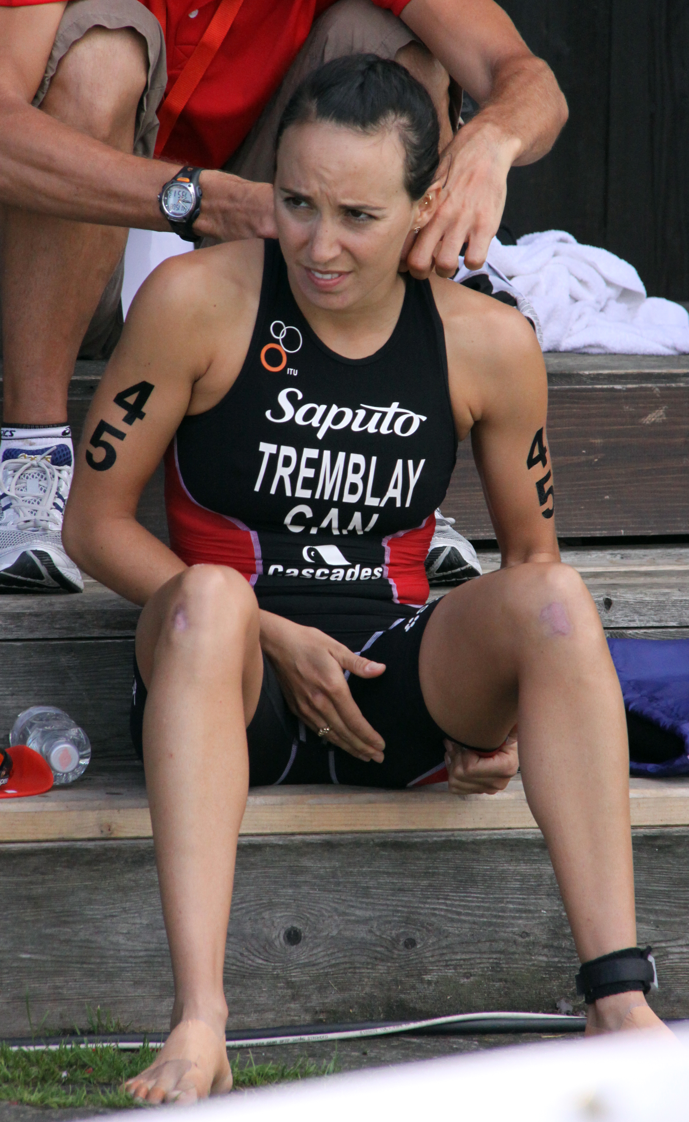 Kathy TREMBLAY at the World Championship Series Triathlon in Kitzbuhel (Kitzbühel), 2010.